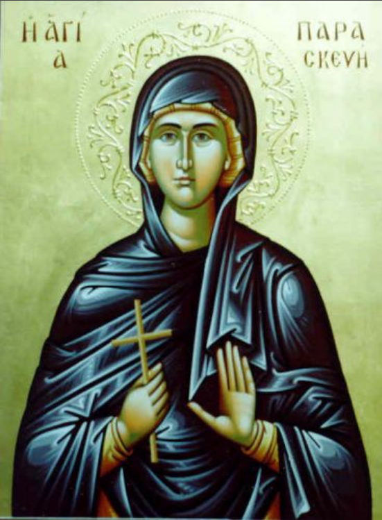 Parascheva of the Balkans